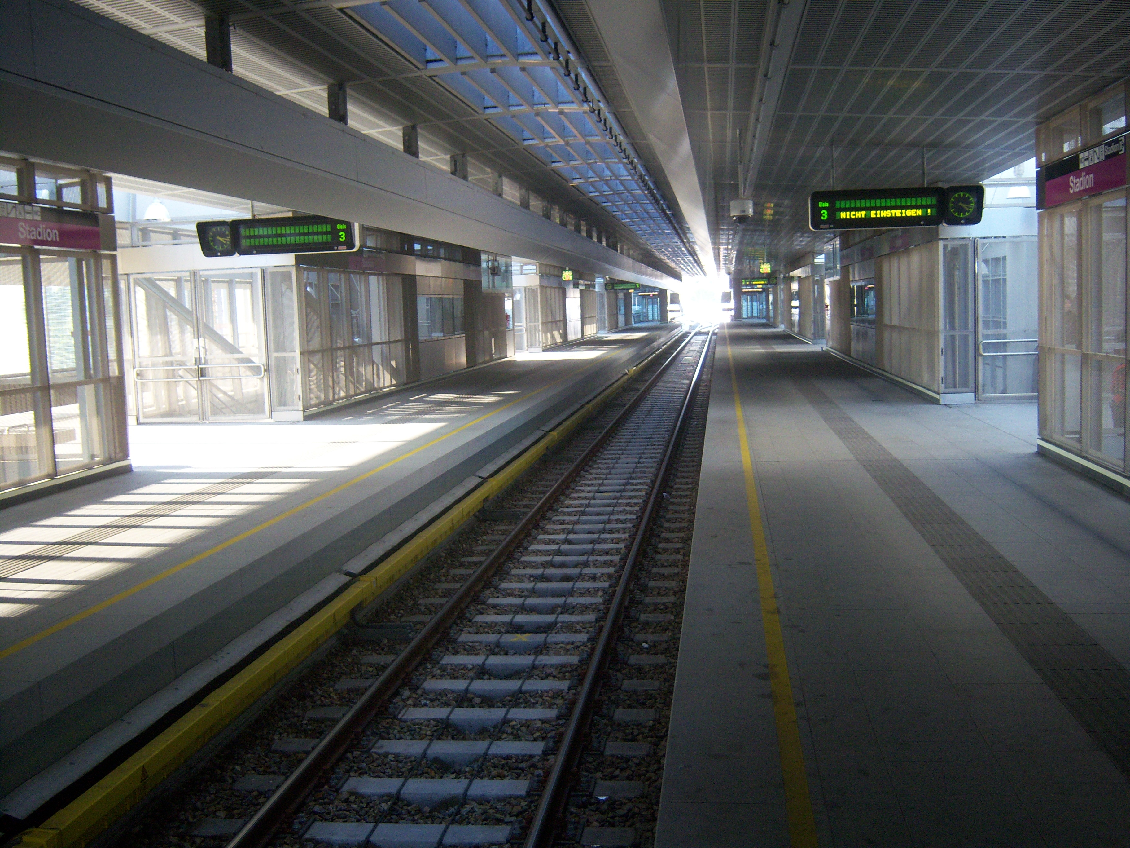 U2-Station Stadion